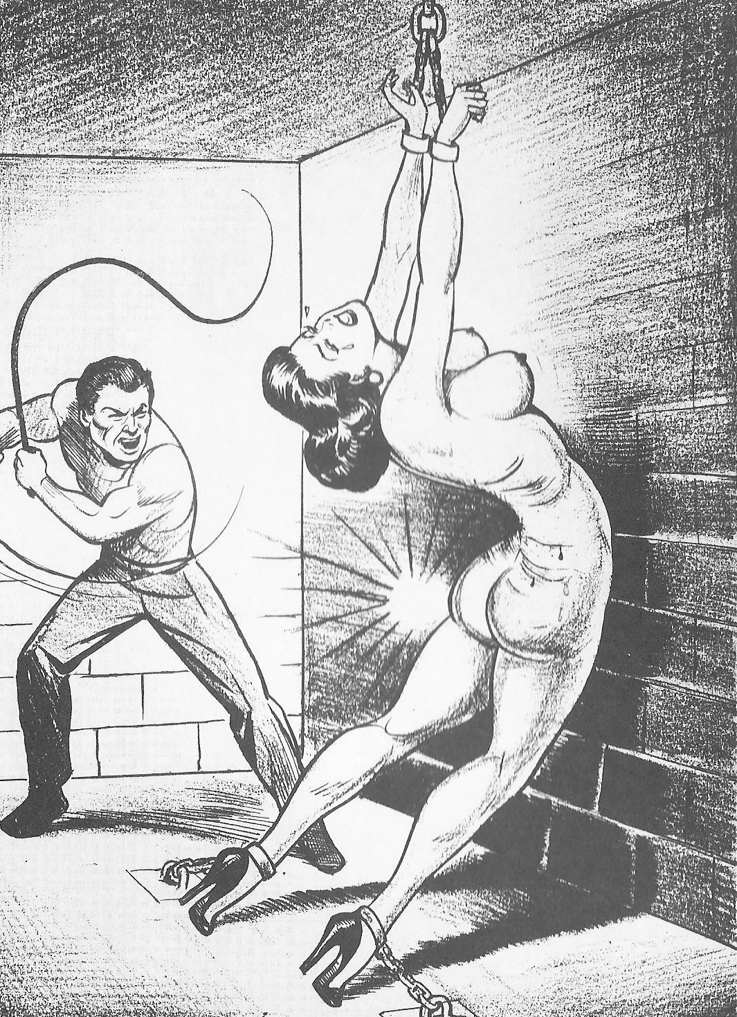 S/M image of lookalike Superman and Lois Lane drawn by the original creator during dispute with employer